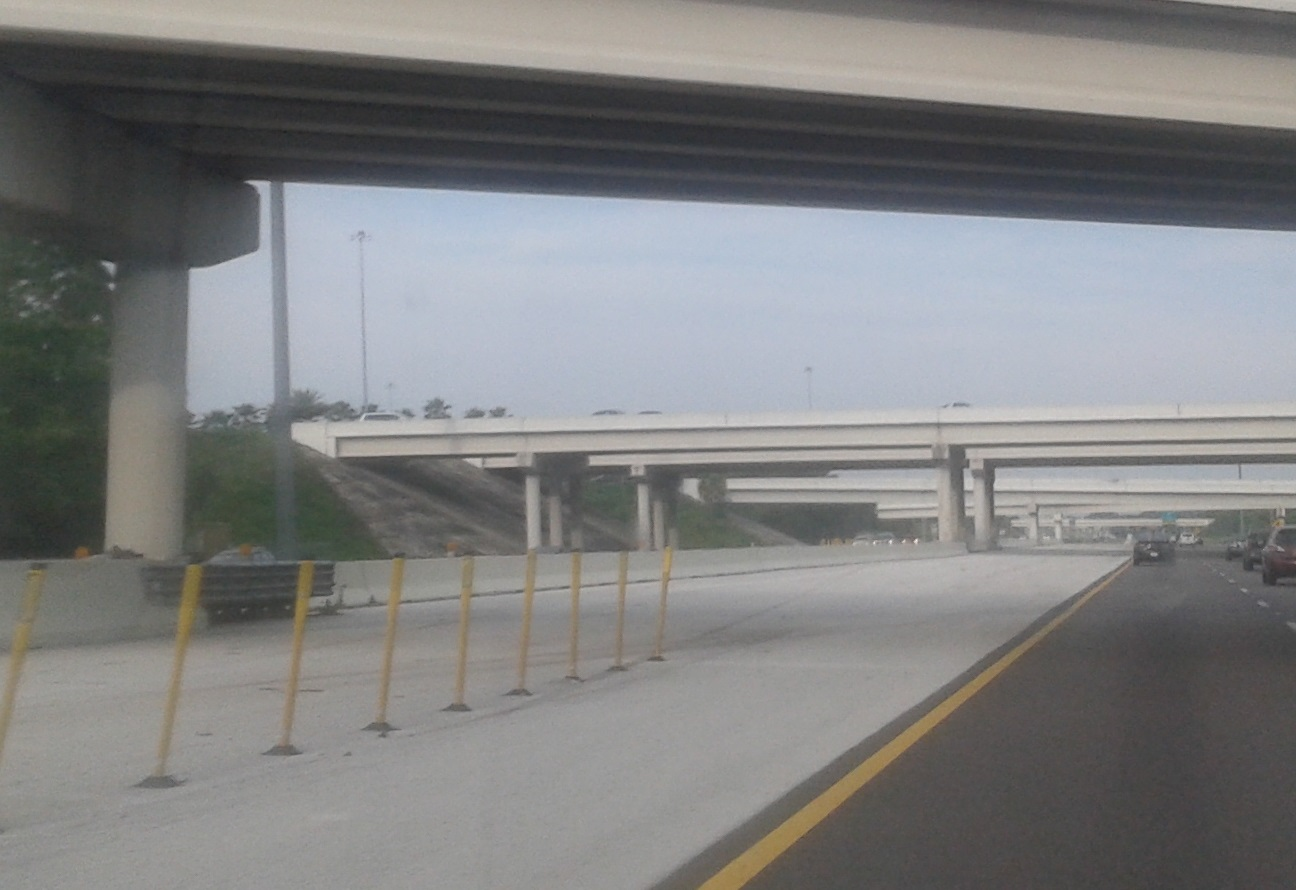 The western crossover location for the contraflow plan for Interstate 4, viewed from eastbound I-4. The metal crash attenuator beneath the left bridge pier is the end of the permanent, concrete traffic barrier which separates eastbound and westbound I-4 traffic. Although difficult to discern, the concrete wall between the metal attenuator and the next bridge (southbound Interstate 75) is composed of modular Jersey barriers. When the contraflow plan is enacted, the Jersey barriers are quickly removed to allow some eastbound traffic to transfer to the westbound lanes. Contraflow can be enacted in the event of the need to evacuate the Tampa Bay Area if a significant hurricane threatens the region.